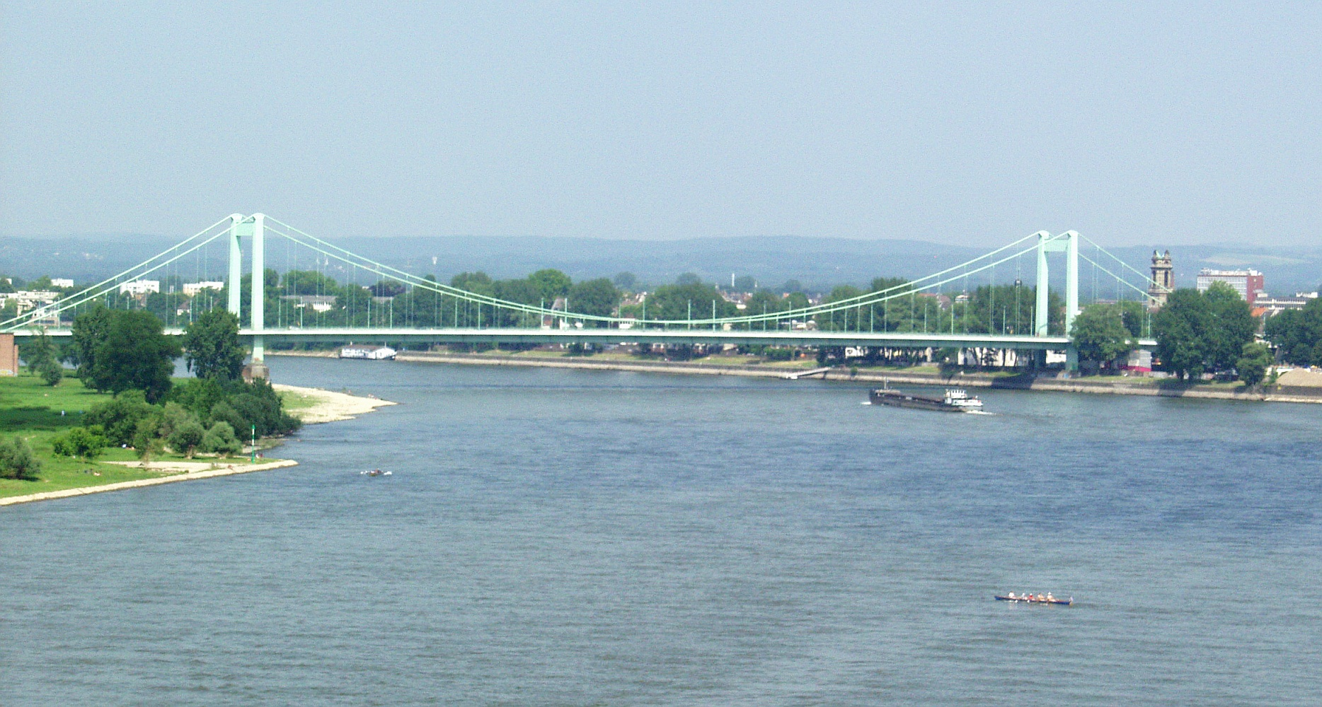 Mülheimer Brücke over the Rhein at Cologne